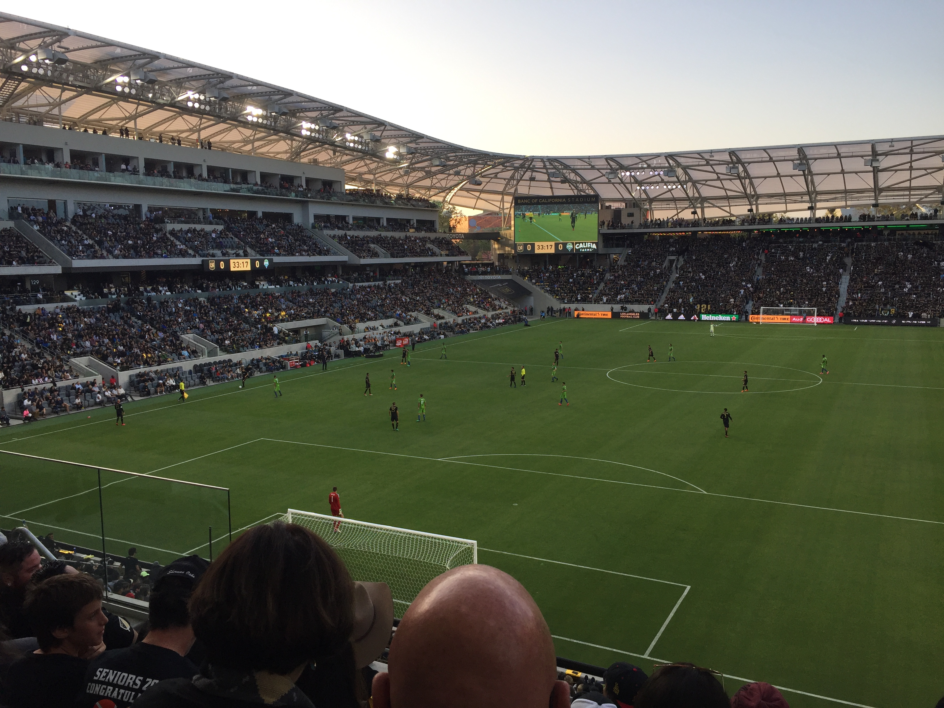 The sunset behind the north end during the opening match against the Seattle Sounders